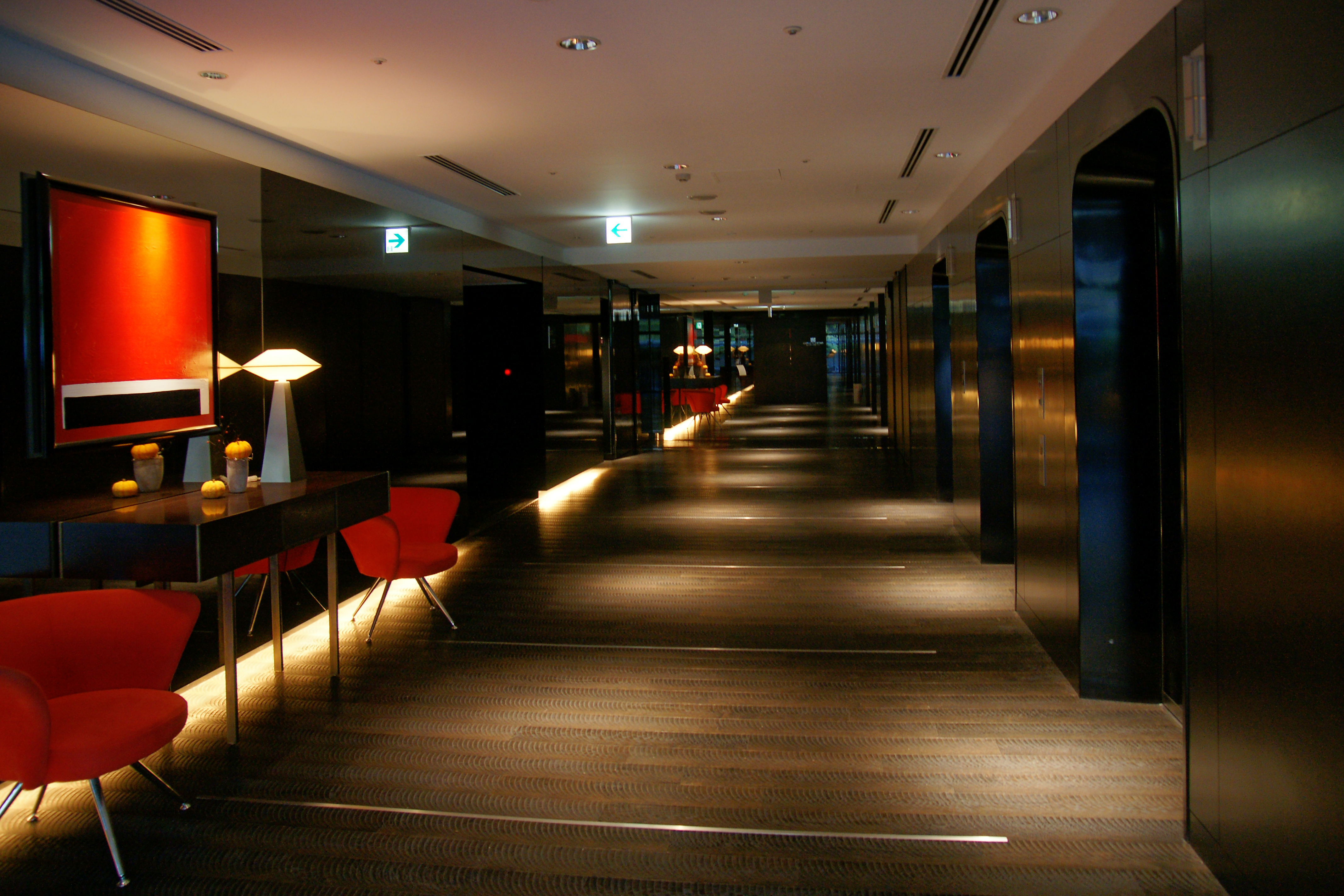 Sapporo_Grand_Hotel in Sapporo, Hokkaido prefecture, Japan